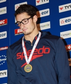 Benjamin Stasiulis aux Championnats de France en petit bassin 2011